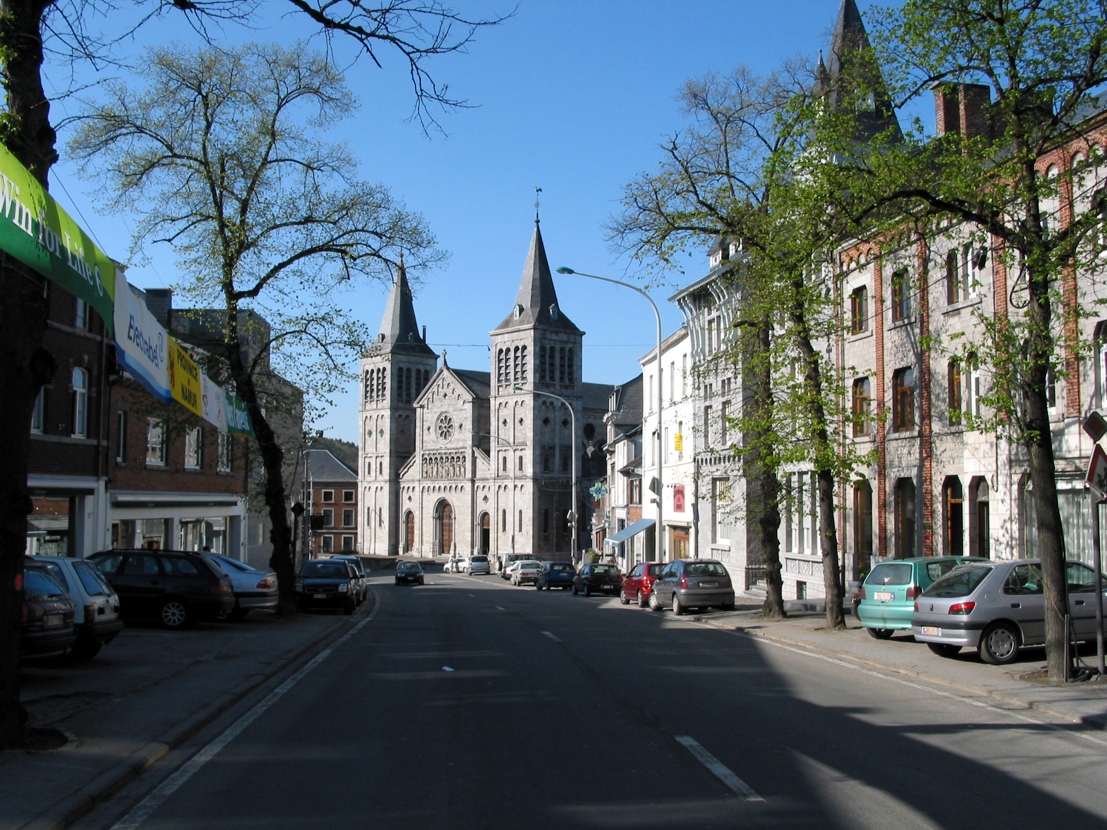 Rochefort (Belgium), the Holy Virgin Visitation church (1871-1873).